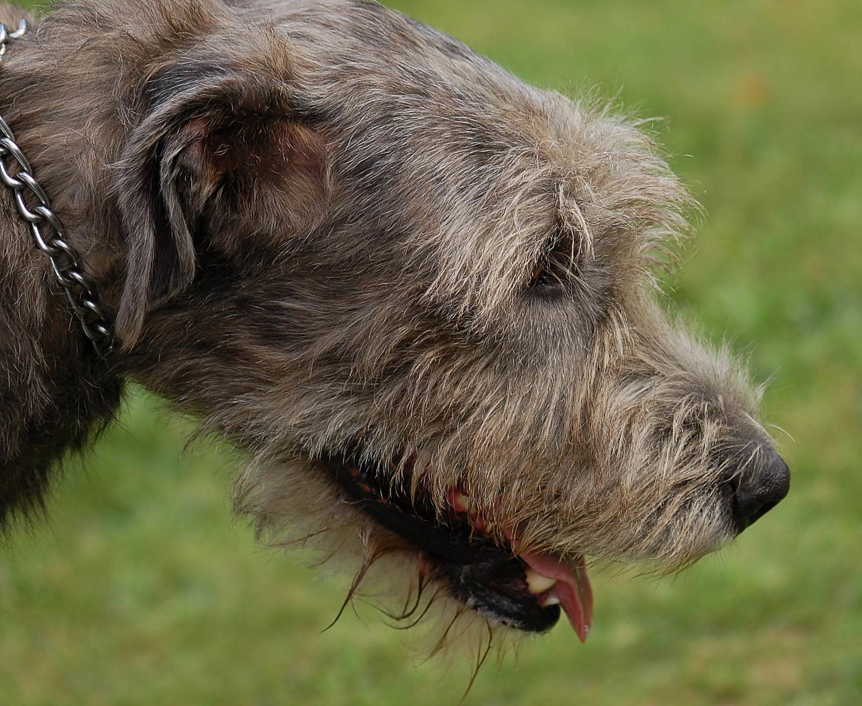 Irish Wolfhound